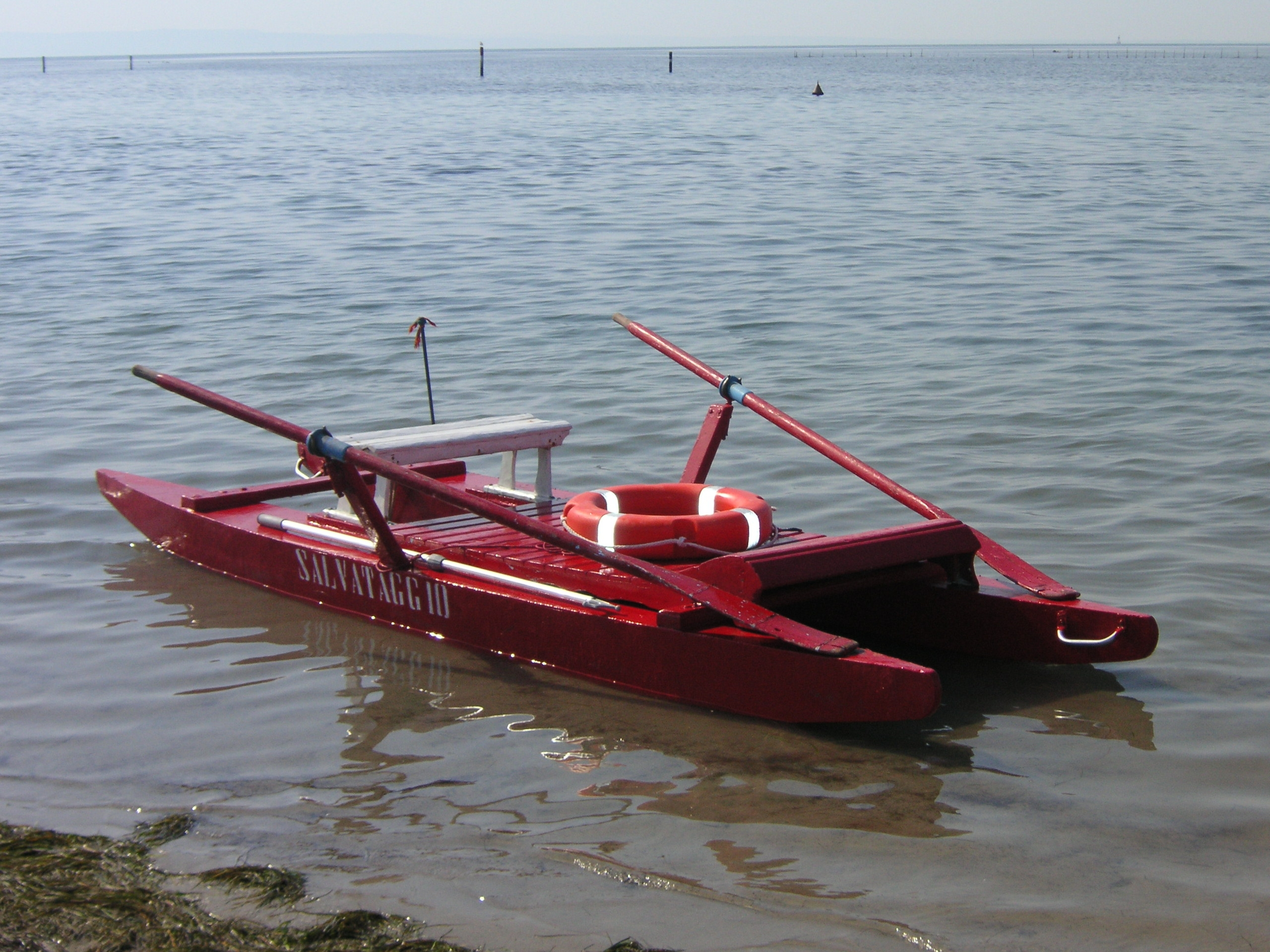 An old-fashioned rescue boat seen in Grado, Italy.